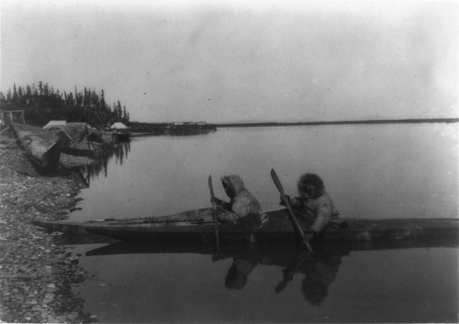 Two men in hooded parkas landing kayaks on a gravel beach.